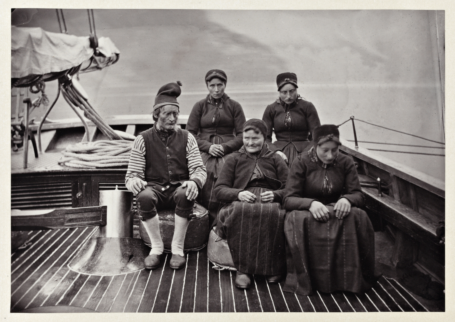 Tittel / Title: s. 49 At Geiranger Motiv / Motif: Albuminkopi. Dato / Date: 1869 Fotograf / Photographer: Edward Backhouse Mounsey (1840-1911) Sted / Place: Møre og Romsdal, Stranda, Geiranger Eier / Owner Institution: Nasjonalbiblioteket / National Library of Norway Lenke / Link: Bildesignatur / Image Number: bldsa_Alb_BH051